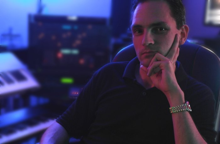 Julius Dobos in Studio CS, 2010